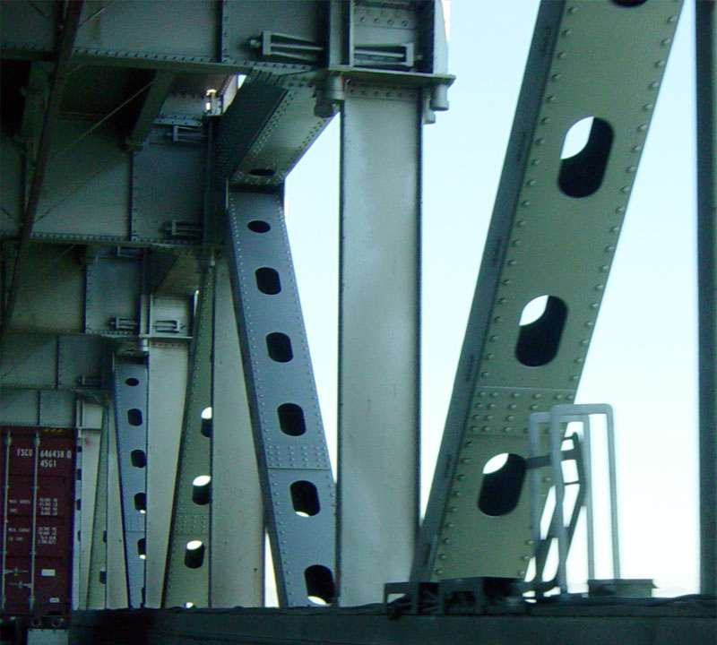 Cropped version of Image:LatticeBeamRetrofit.jpg Bolted plate replaces hot riveted lattice in box beams as part of a seismic retrofit of this portion of the San Francisco-Oakland Bay Bridge. The four vertical cylindrical objects at the top of each vertical beam are the terminations of a pair of suspender cables of this double deck suspension bridge. Image Sept 8, 2004 by User:Leonard G..